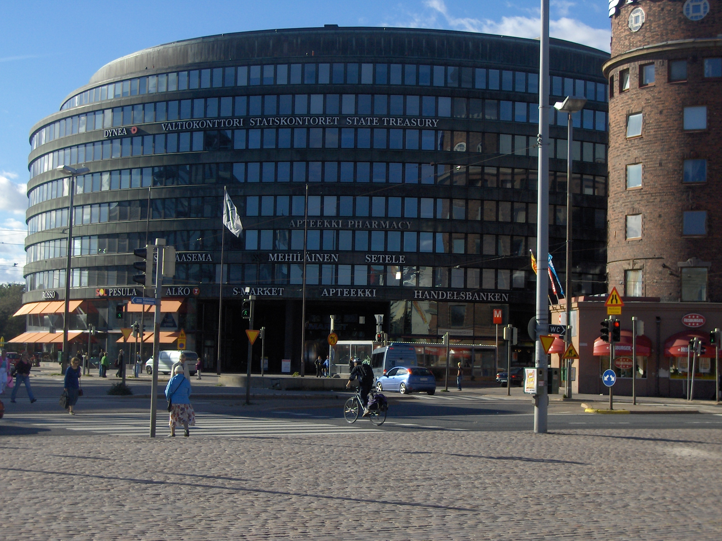 Ympyrätalo, or round building in Hakaniemi, Helsinki